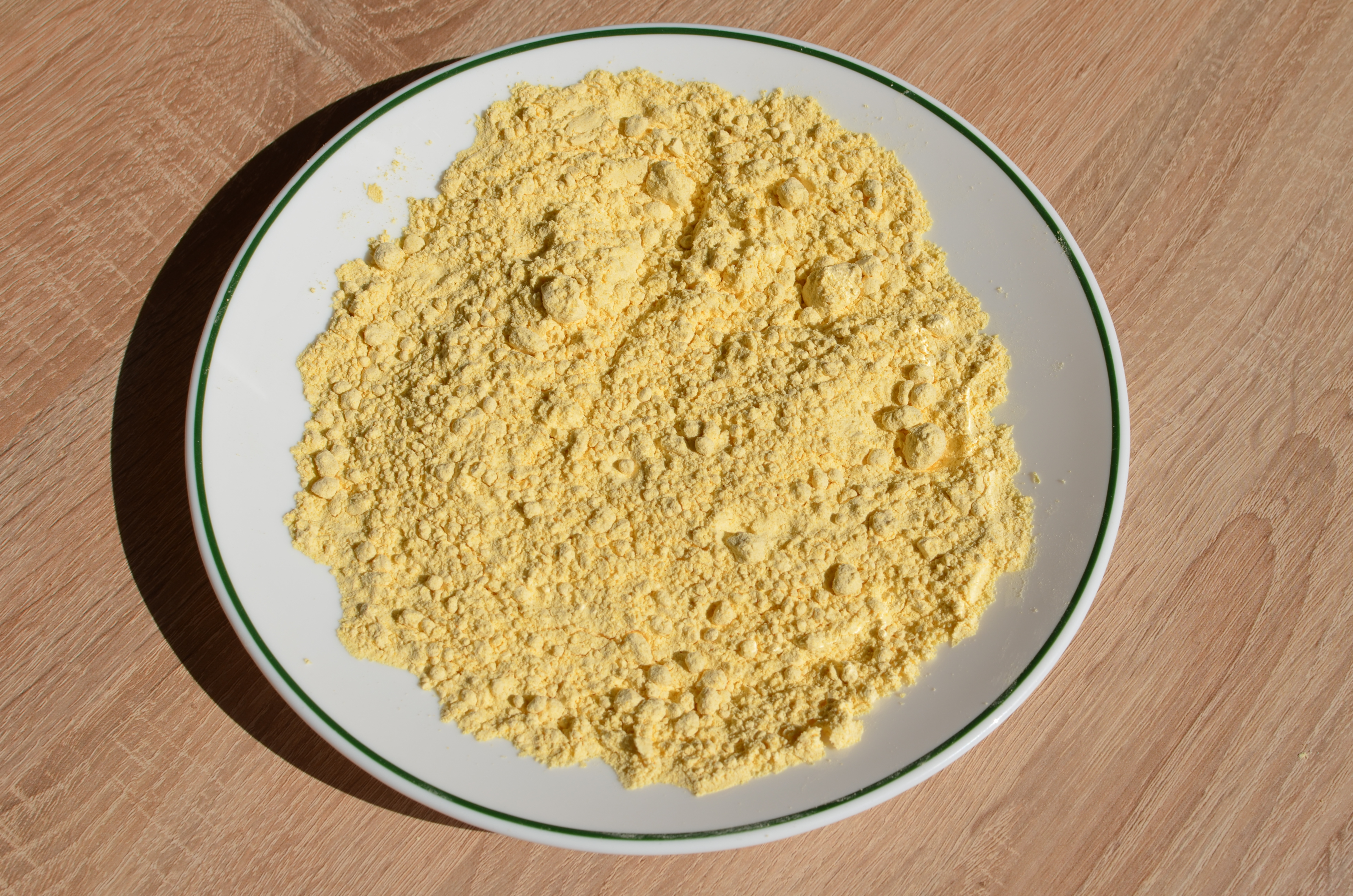 A plate with gram flour.